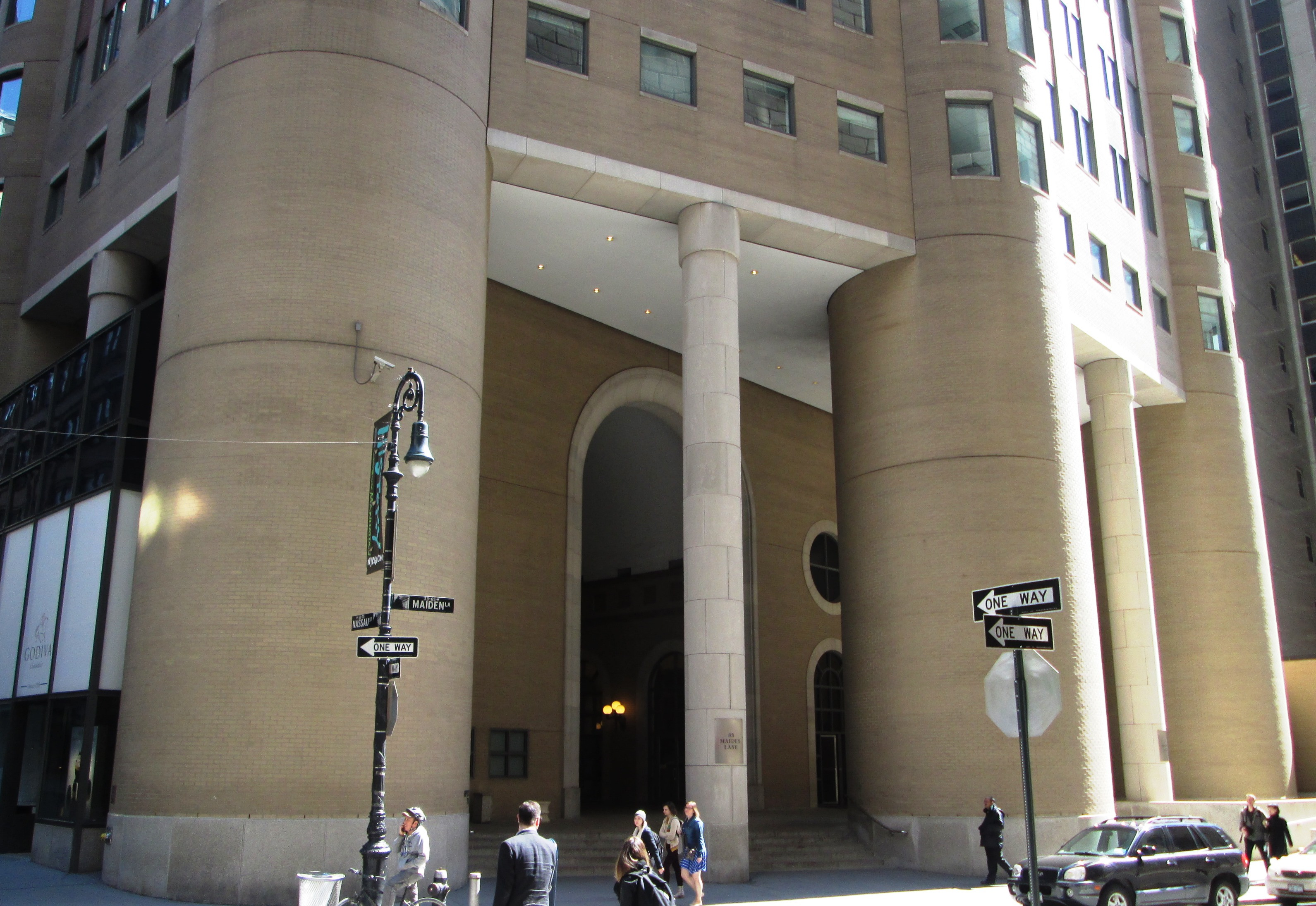 33 Maiden Lane at the corner of Nassau Street and running to John Street in the Financial District of Manhattan, New York City was built in 1984-86 and was designed by Philip Johnson & John Burgee. (Source: AIA Guide to NYC (5th ed.))